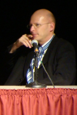 Stanislas Dehaene, Toward a Science of Consciousness conference, Tucson, Arizona.